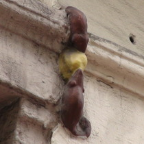 Carved mice on parapet of 1861 warehouse in City of London